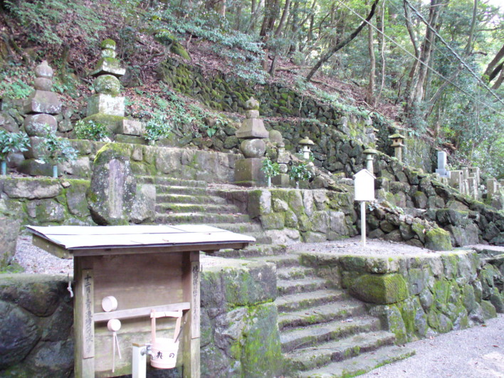 Oku-no-in of Kongoshoji temple on Mt. Asama Ise city Mie Prf. Japan.